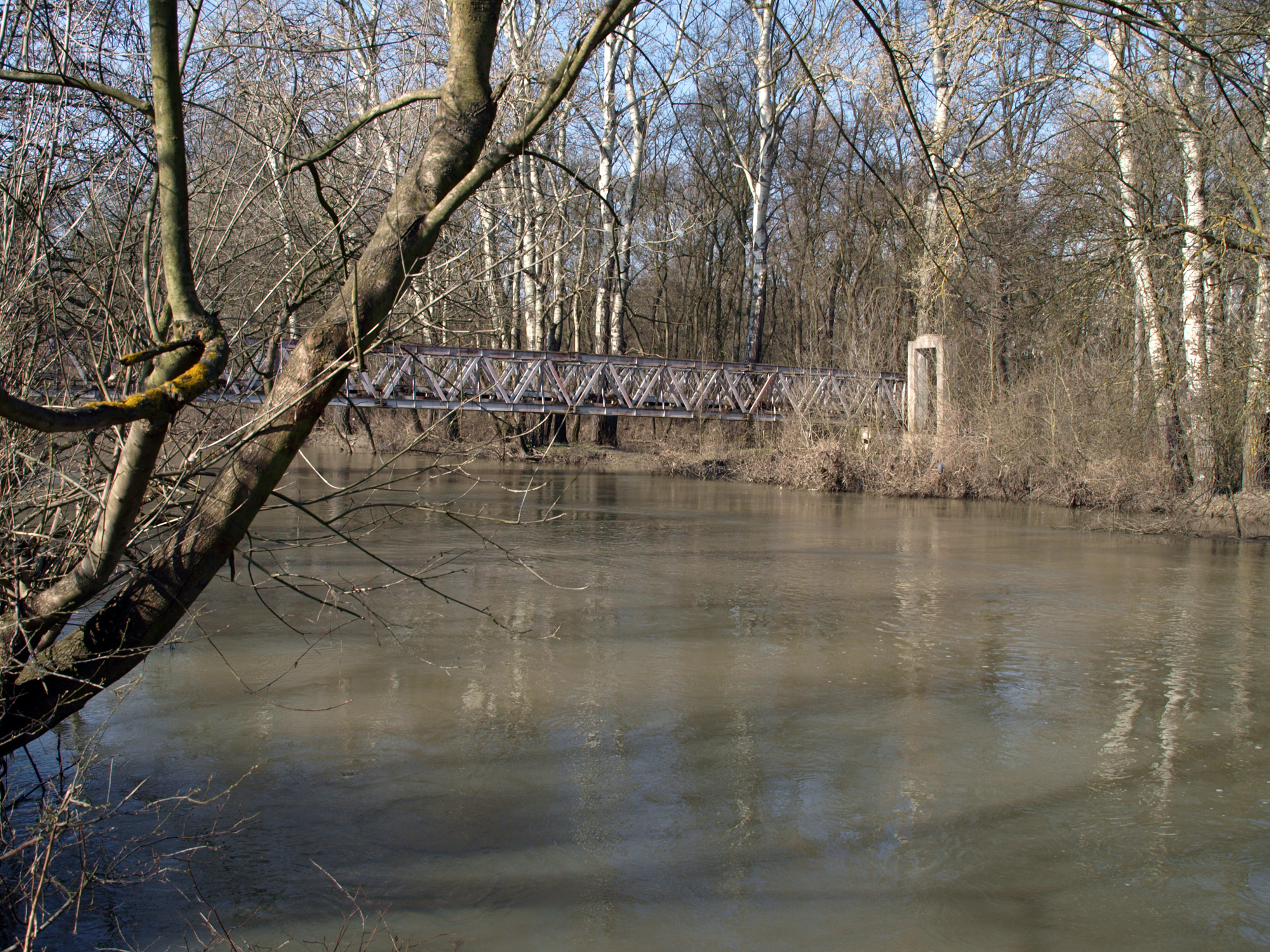 A Bridge over Tundzha river at Elhovo, Bulgaria